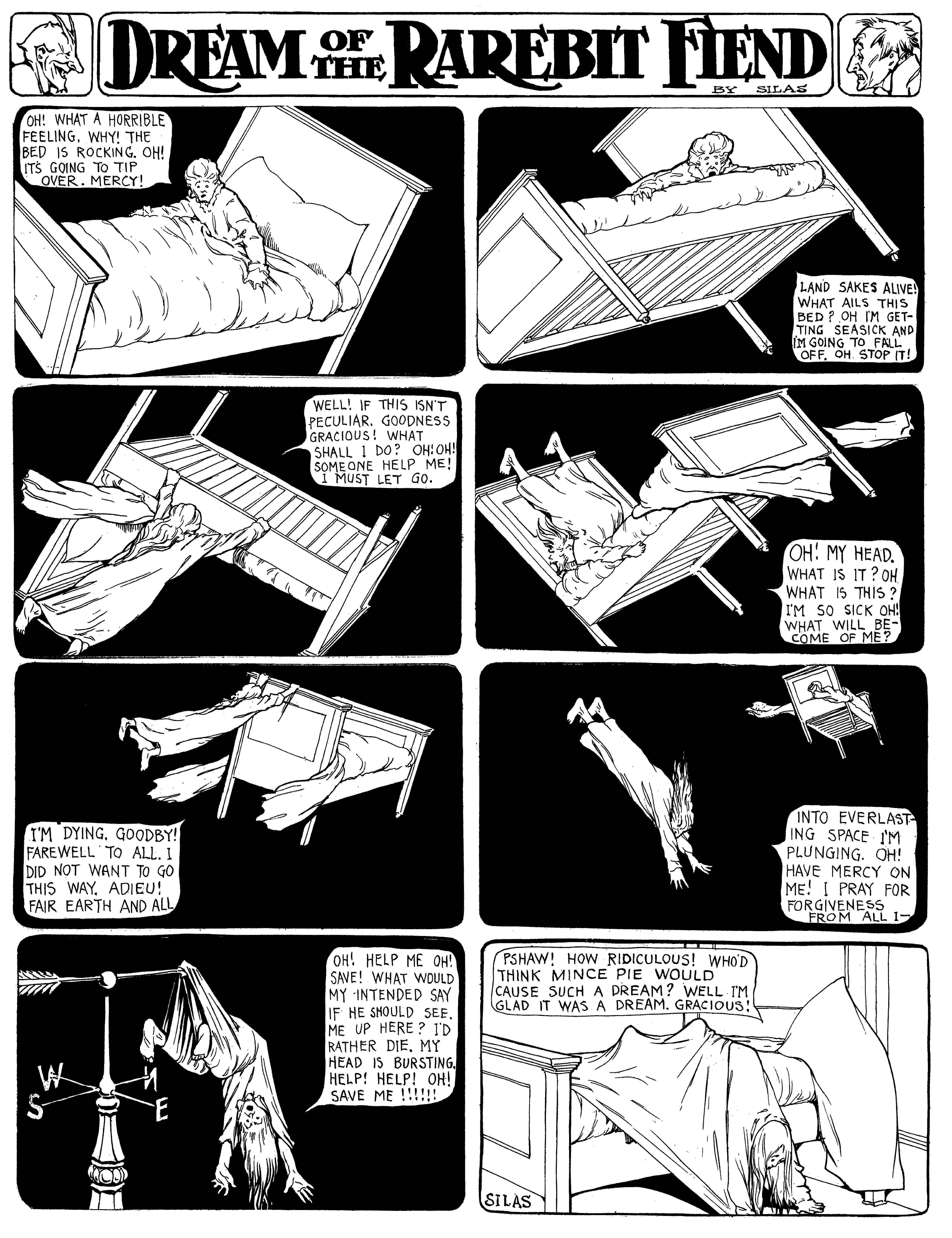 Dream of the Rarebit Fiend episode from 1905-01-28 by Winsor McCay